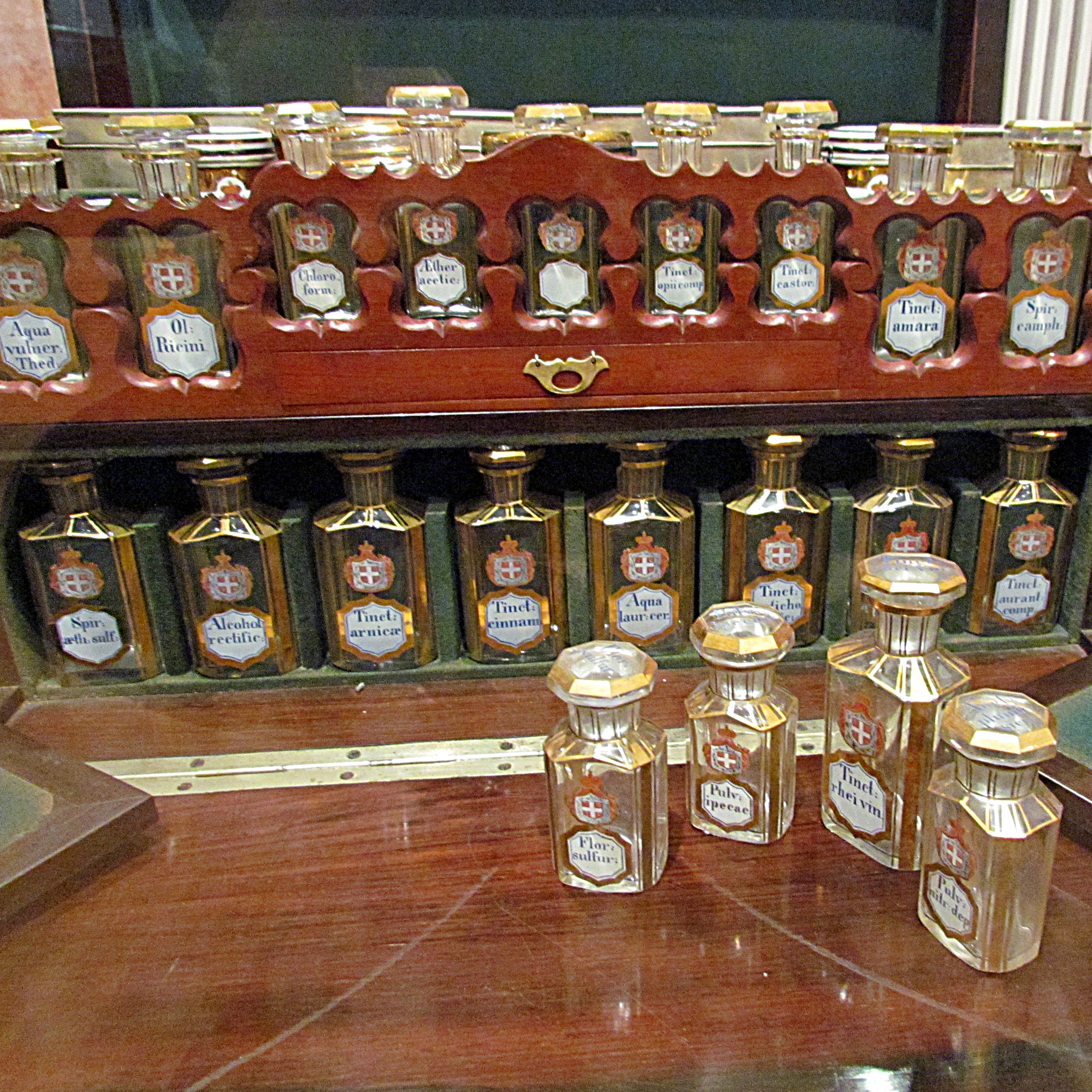 First aid kits of Prince Aleksandar Karadjordjevic, Wentzel Batka, XIX c, Prague